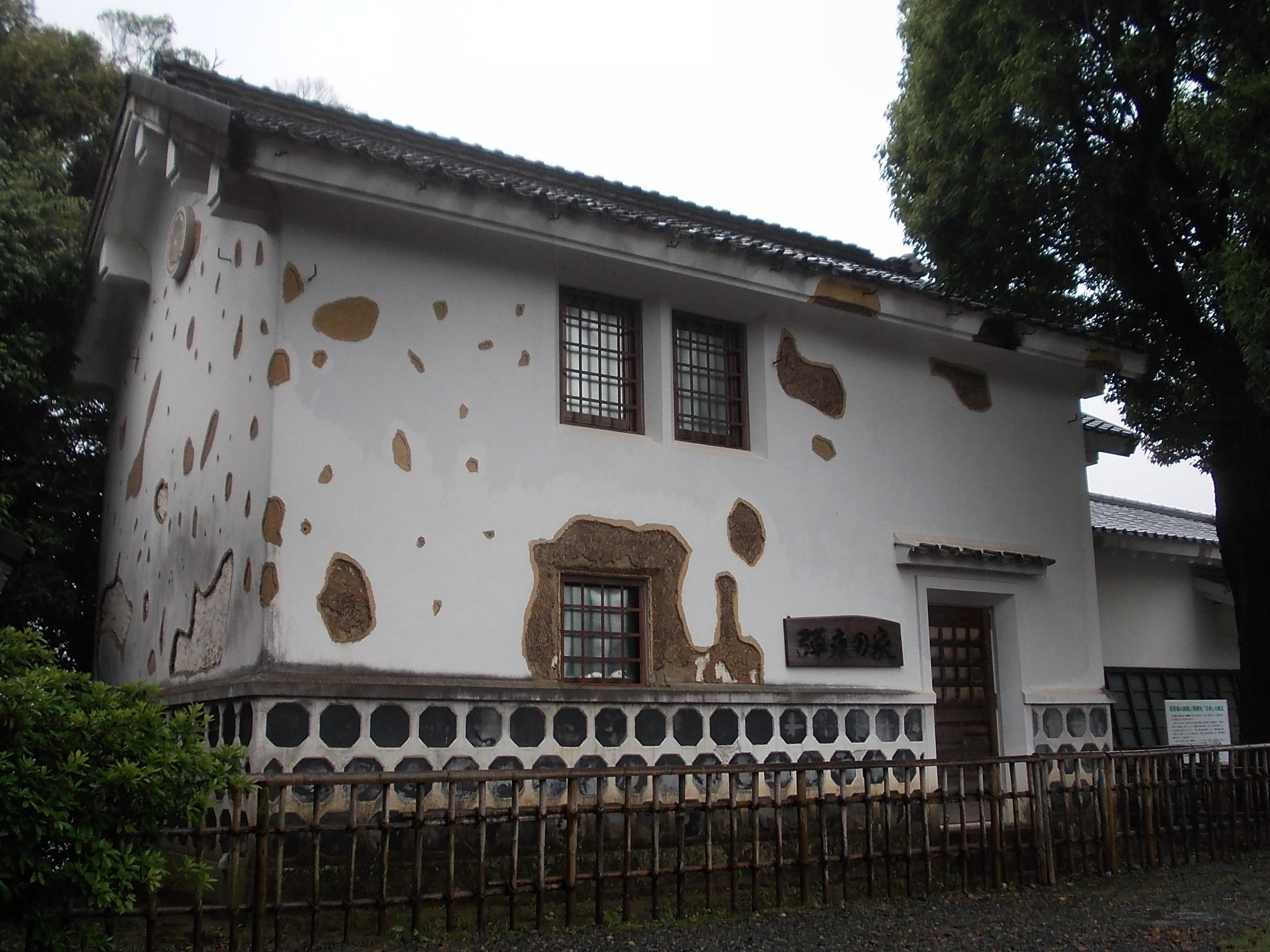 Dankon-no-ie (弾痕の家), literally means the house of bullet holes, is located at Tabaruzaka Battle Field, Kita-ku, Kumamoto, Japan. It still remains the bullet holes which occurred during the Battle of Tabaruzaka in 1877.